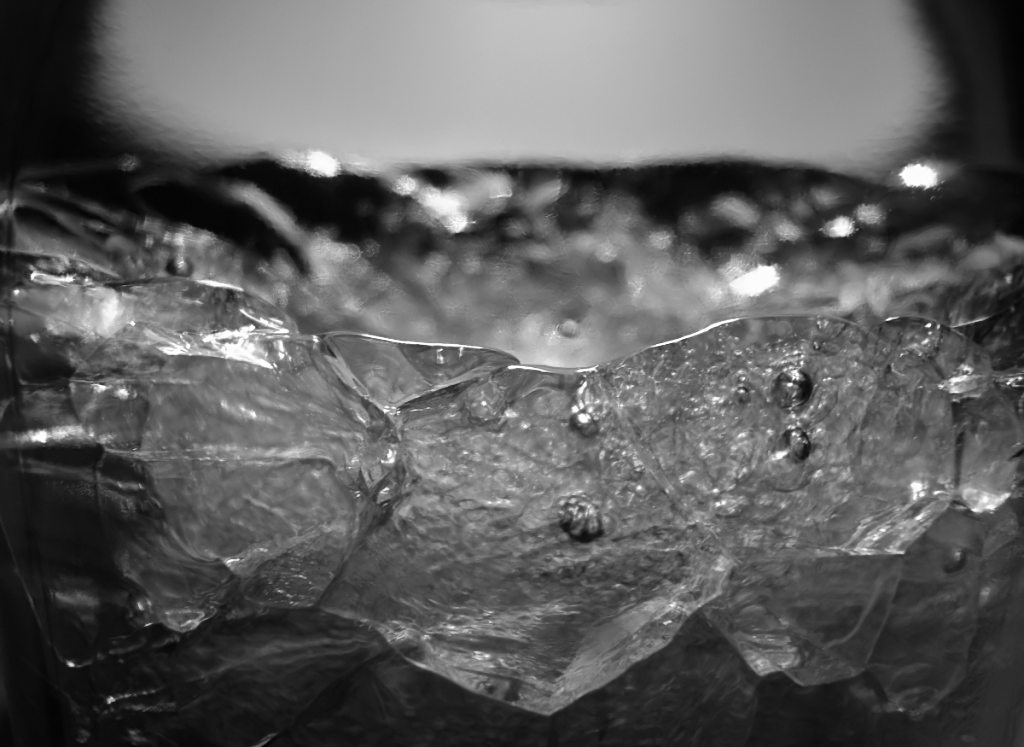 Crystals of benzene under a layer of liquid benzene. They were formed inside a container exposed to temperatures below 5.5 °C. Their smoothness is the result of taking the photograph some time after bringing the container inside an atmosphere at room temperature, where they began to melt.